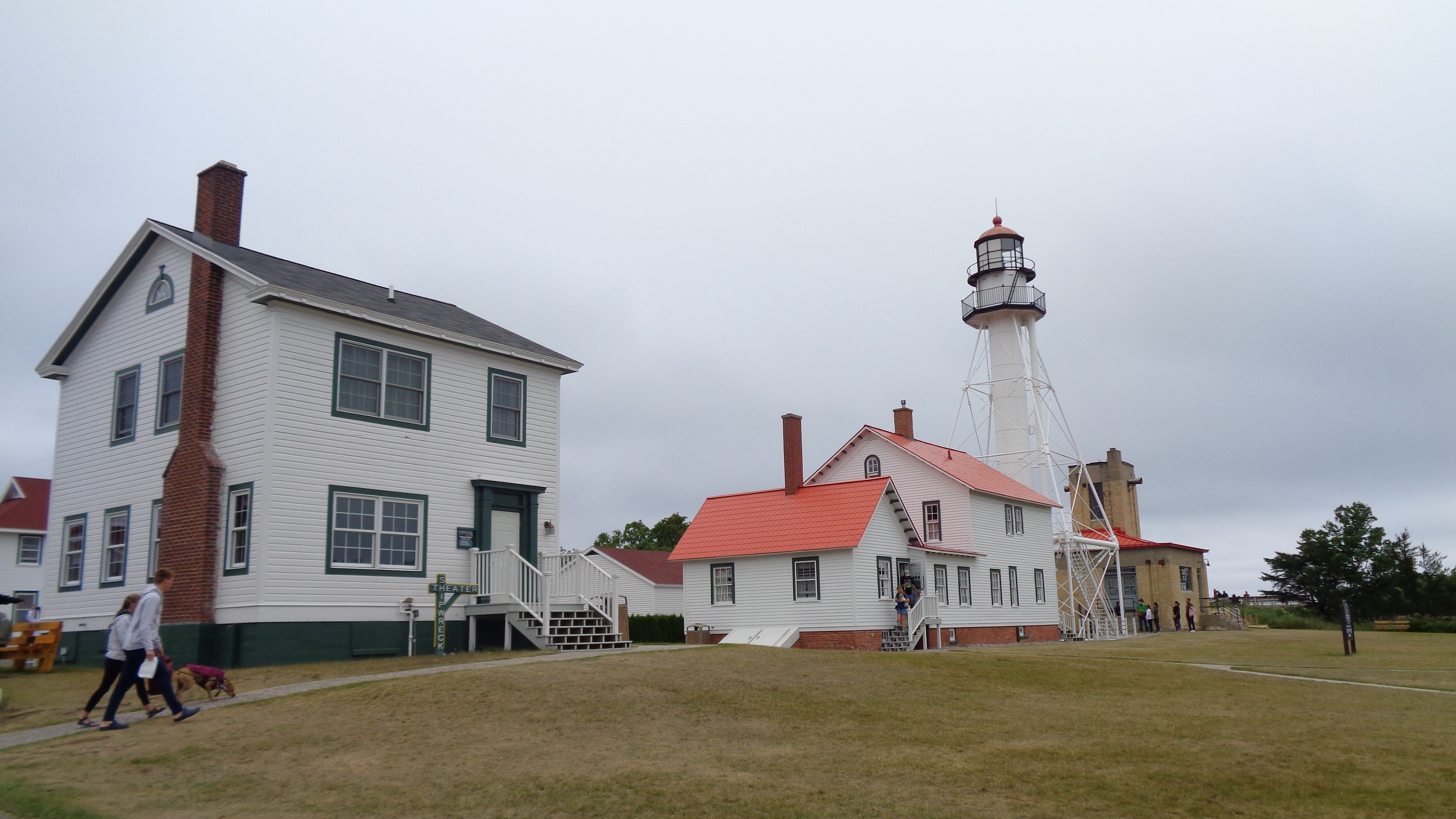 Whitefish Lighthouse